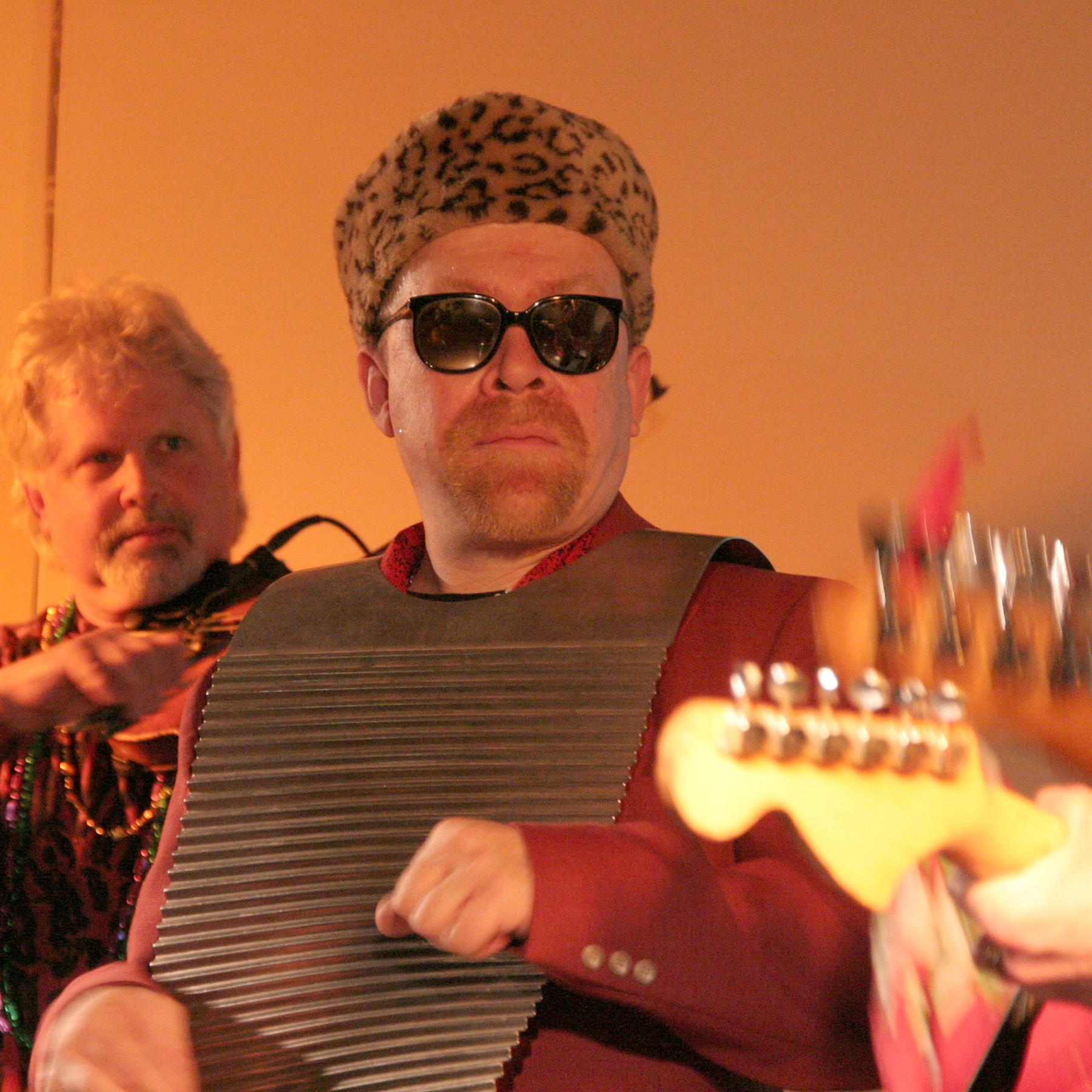 A zydeco and jazz musician playing a frottoir, an instrument similar to a traditional washboard, worn over the player's shoulders